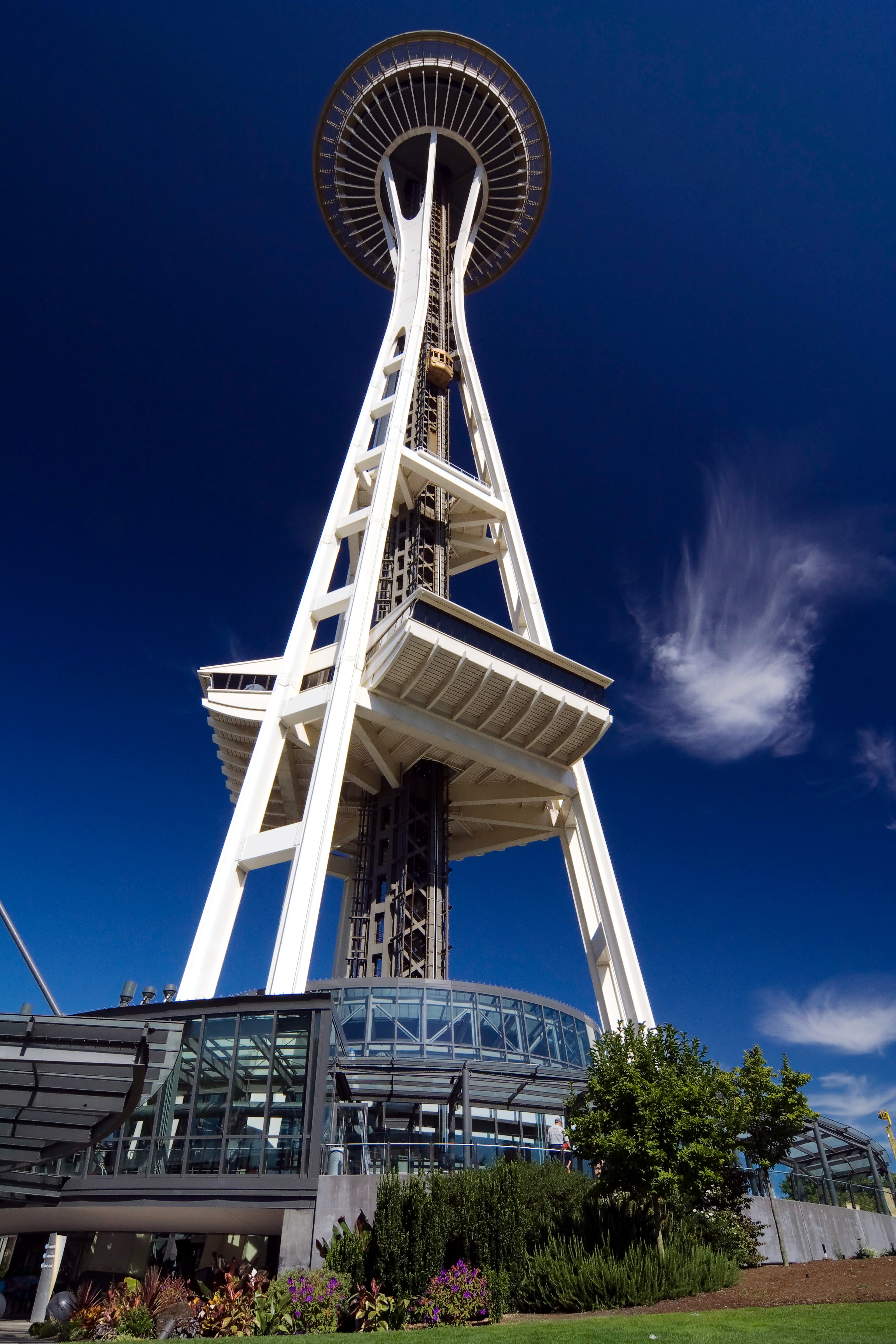 Space needle in Seattle, WA